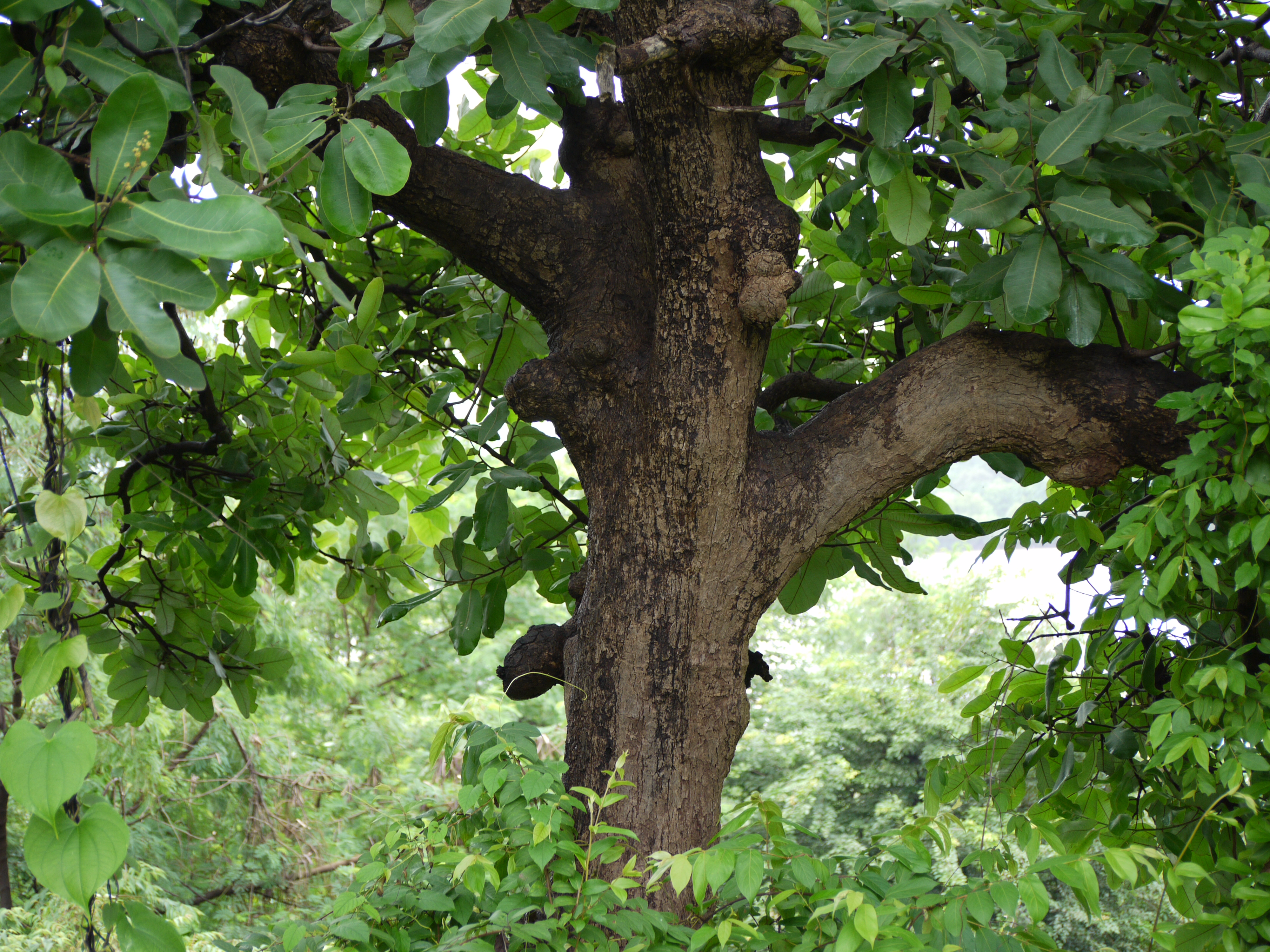 Anacardiaceae (cashew family) » Semecarpus anacardium sim-eh-KAR-pus -- from the Greek semeion (a mark) and karpus (fruit) an-uh-KAR-dee-um -- a fruit's name of an Indian tree, applied to cashew by Linnaeus commonly known as: dhobi nut tree, Indian marking nut tree, Malacca bean, marany nut, marsh nut, oriental cashew nut, varnish tree • Assamese: ভলা bhala • Bengali: ভল্লাত bhallata, ভল্লাতক bhallataka • Garo: babari • Gujarati: ભિલામો bhilamo, ભિલામું bhilamu • Hindi: भिलावां or भिलावन bhilawan, बिल्लार billar • Kannada: ಗೇರ geru, ಗೇರಣ್ಣಿನ ಮರ gerannina mara • Konkani: अंबेरी amberi, बिब्बा bibba • Malayalam: അലക്കുചേര് alakuceer, ചേന്‍ക്കുരു ceenkkuru, തേങ്കൊട്ട theenkotta • Marathi: भल्लातक bhallataka, भिल्लावा bhillava, बिब्बा bibba • Nepalese: भलायो bhalaayo • Oriya: bhollataki, bonebhalia • Punjabi: bhilawa • Sanskrit: अह्वला ahvala, अर्शस्तः arshastah, अरुध्कः arudhkh, भल्लातकः bhallatakah, वह्निः vahnih, विषास्या vishasya • Tamil: சேங்கொட்டை cen-kottai, சோம்பலம் compalam, காலகம் kalakam, காவகா kavaka, கிட்டாக்கனிக்கொட்டை kitta-k-kani-k-kottai • Telugu: భల్లాతము bhallatamu, జీడిమామిడిచెట్టు jidimamidichettu • Urdu: بلادر baladur, بهلاون bhilavan, بلار billar Native to: India, Nepal; cultivated elsewhere References: Herbal Cure India • NPGS / GRIN • ENVIS - FRLHT • Wikipedia